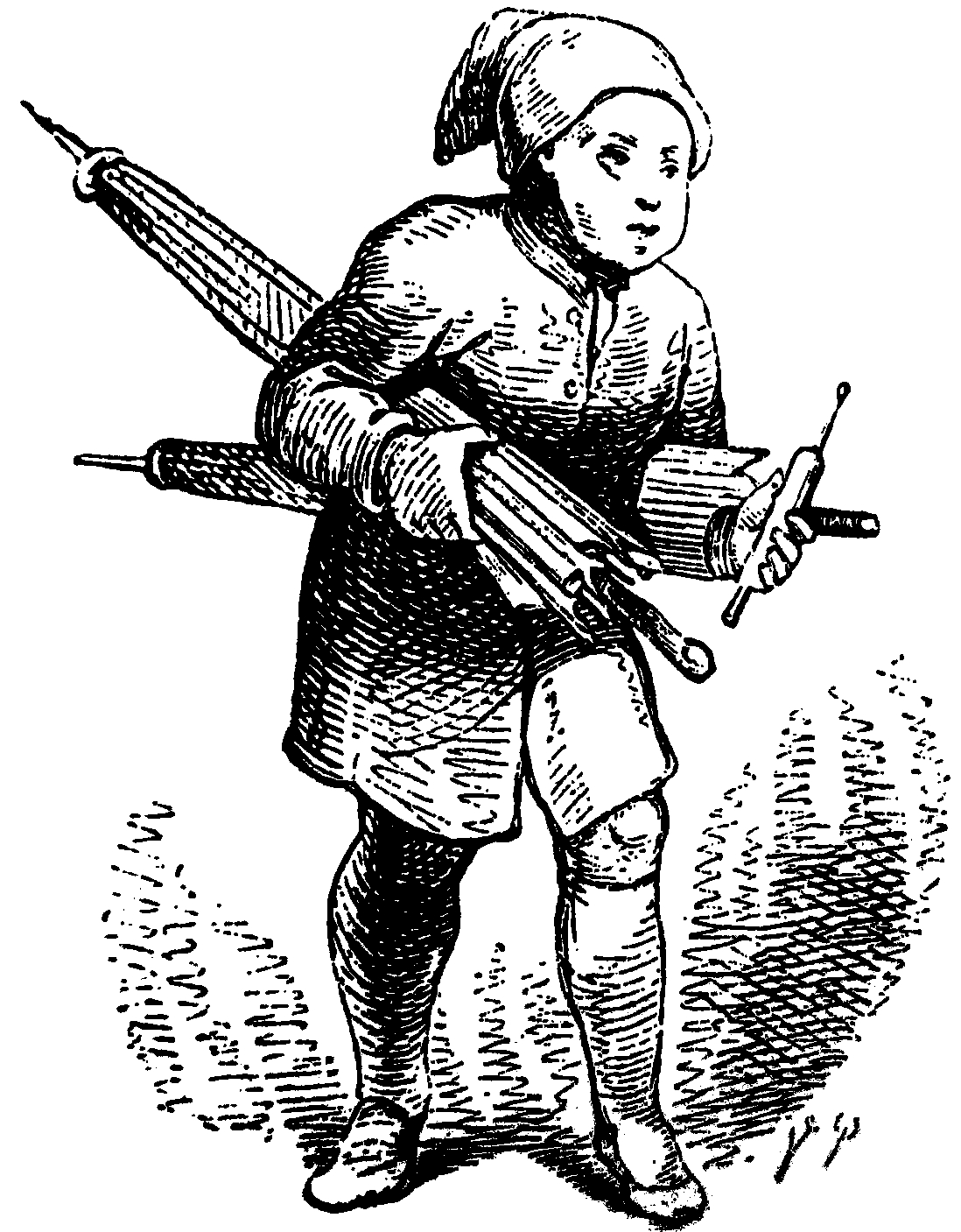 Drawn by Vilhelm Pedersen for the fairytale "Ole Lukøje" (mr. sandman) by H.C. Andersen